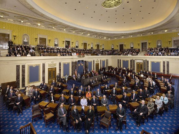 A class photo of the 110th United States Senate.